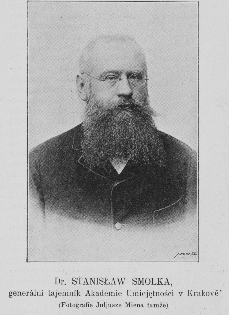 Portrait of Stanisław Smolka (1854 - 1924), Polish historian